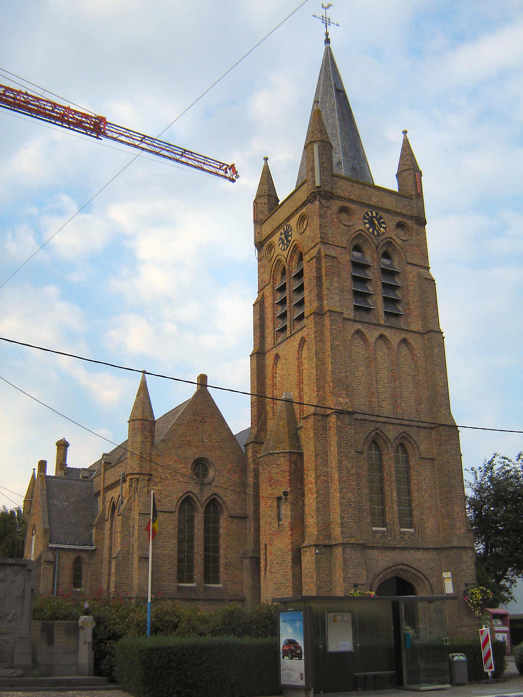 Church of Saint Lawrence in Westende. Westende, Middelkerke, West Flanders, Belgium